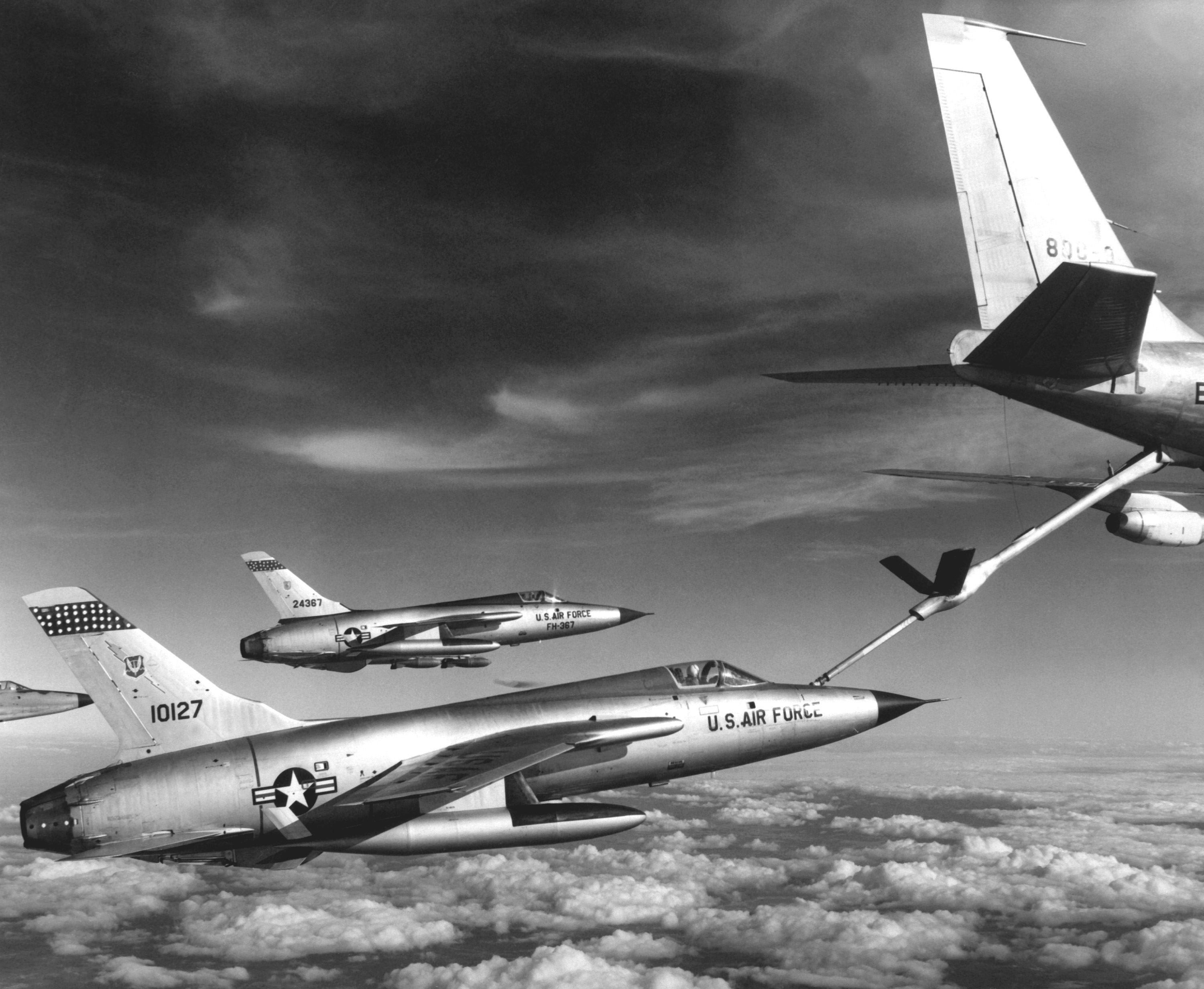 U.S. Air Force Republic F-105D Thunderchief fighters refuel from a Boeing KC-135A Stratotanker en route to North Vietnam in 1966. The aircraft were from the 334th Tactical Fighter Squadron, deployed from the 4th Tactical Fighter Wing at Seymour Johnson AFB, North Carolina (USA) to Takli RTAFB.